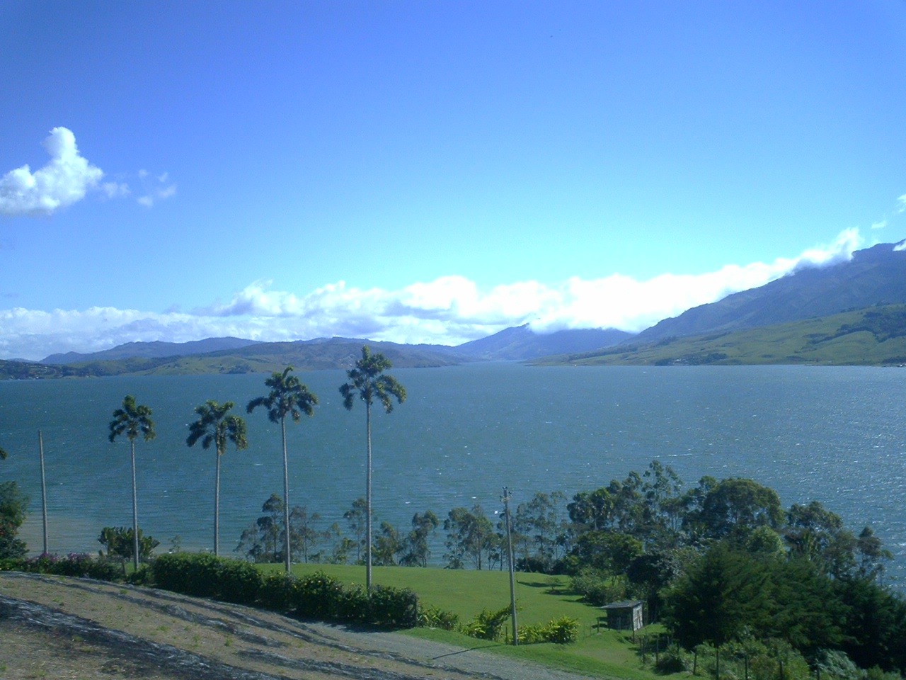 Calima Lake. A view from the road to Darien, coming from Buga in Valle del Cauca department in Colombia.